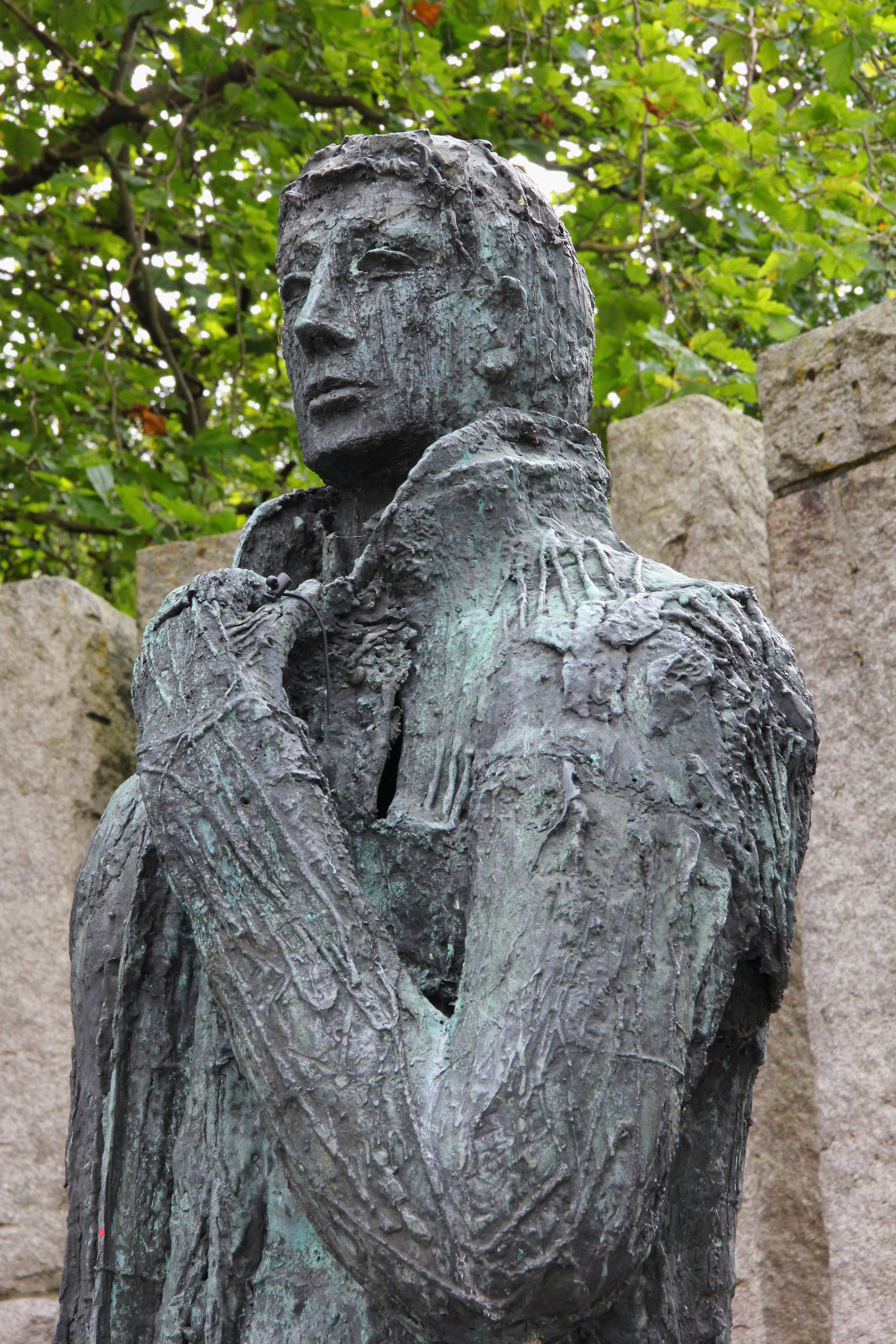 Edward Delaney's statue of Wolfe Tone at the corner of St Stephen's Green in Dublin, Ireland.